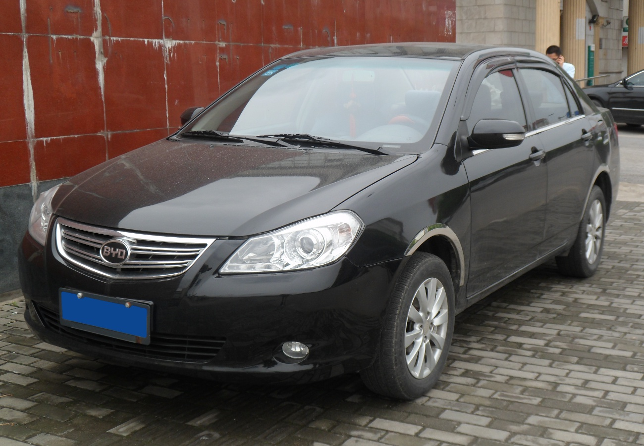 BYD G3 photographed in Shanghai, China.